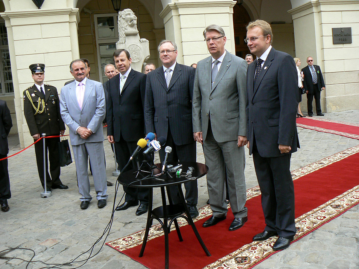 Visit of the President of Latvia Valdis Zatlers to Lviv on 27 June 2008. Briefing for journalists after signing the protocol on cooperating between Lviv and Riga. On the picture (from left to right): the Head of Lviv Regional Council Myroslav Senyk, the Head of Lviv Regional State Administration Mykola Kmit, the Mayor of Riga Jānis Birks, the President of the Republic of Latvia Valdis Zatlers, and the Mayor of Lviv Andriy Sadovyi.